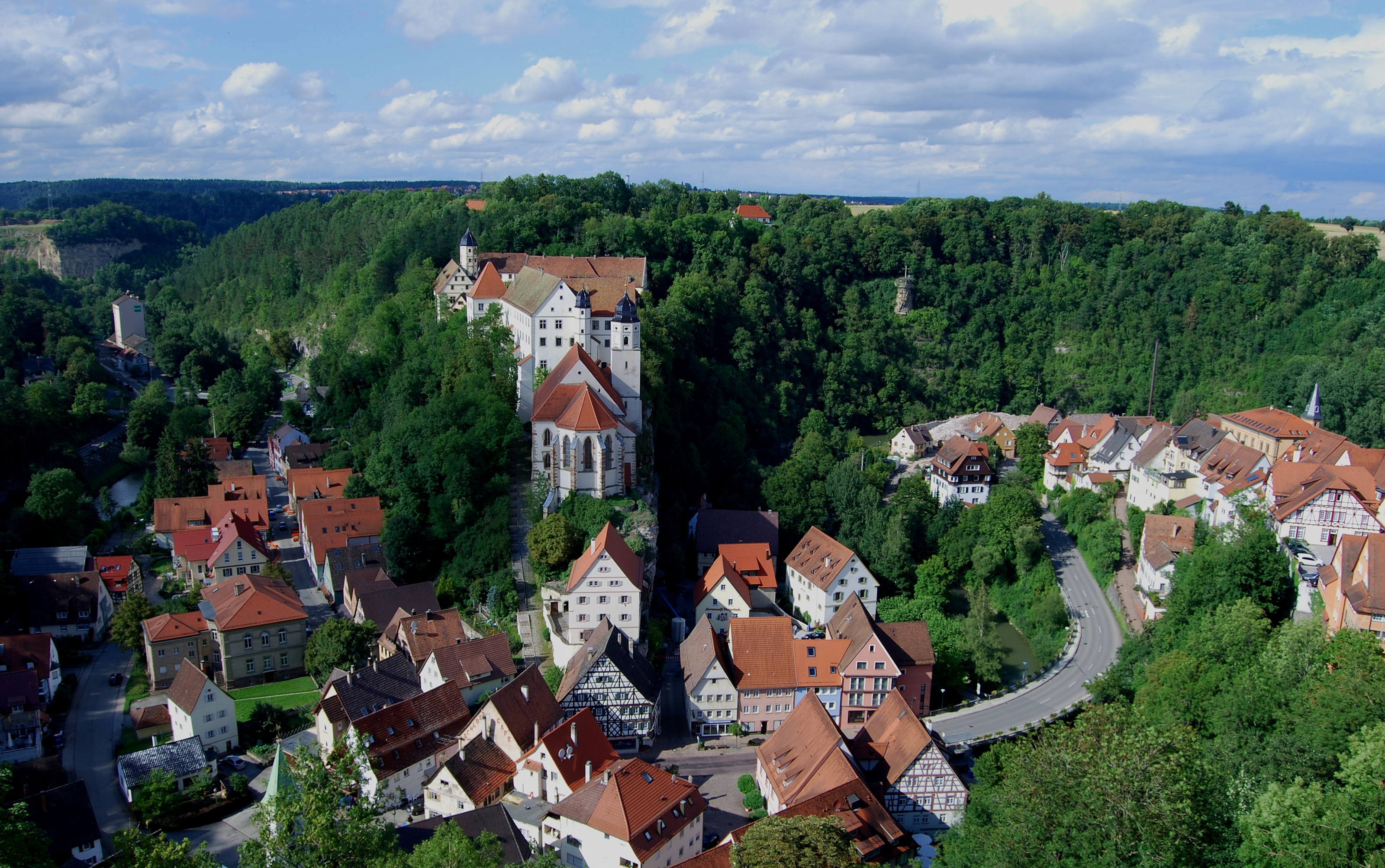 View over Haigerloch.